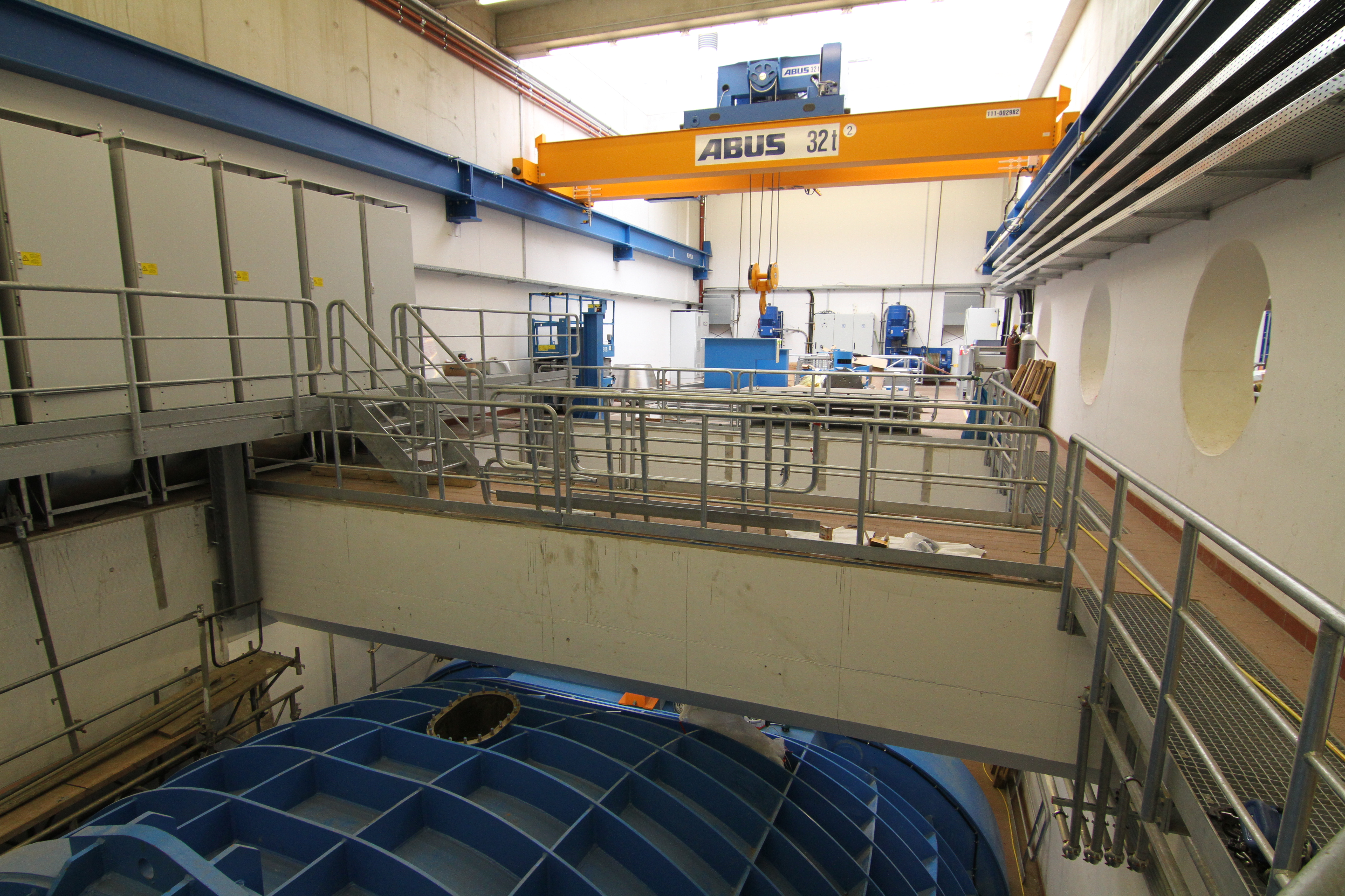 The machine hall of the hydropower station on the river Weser in Bremen, Germany.